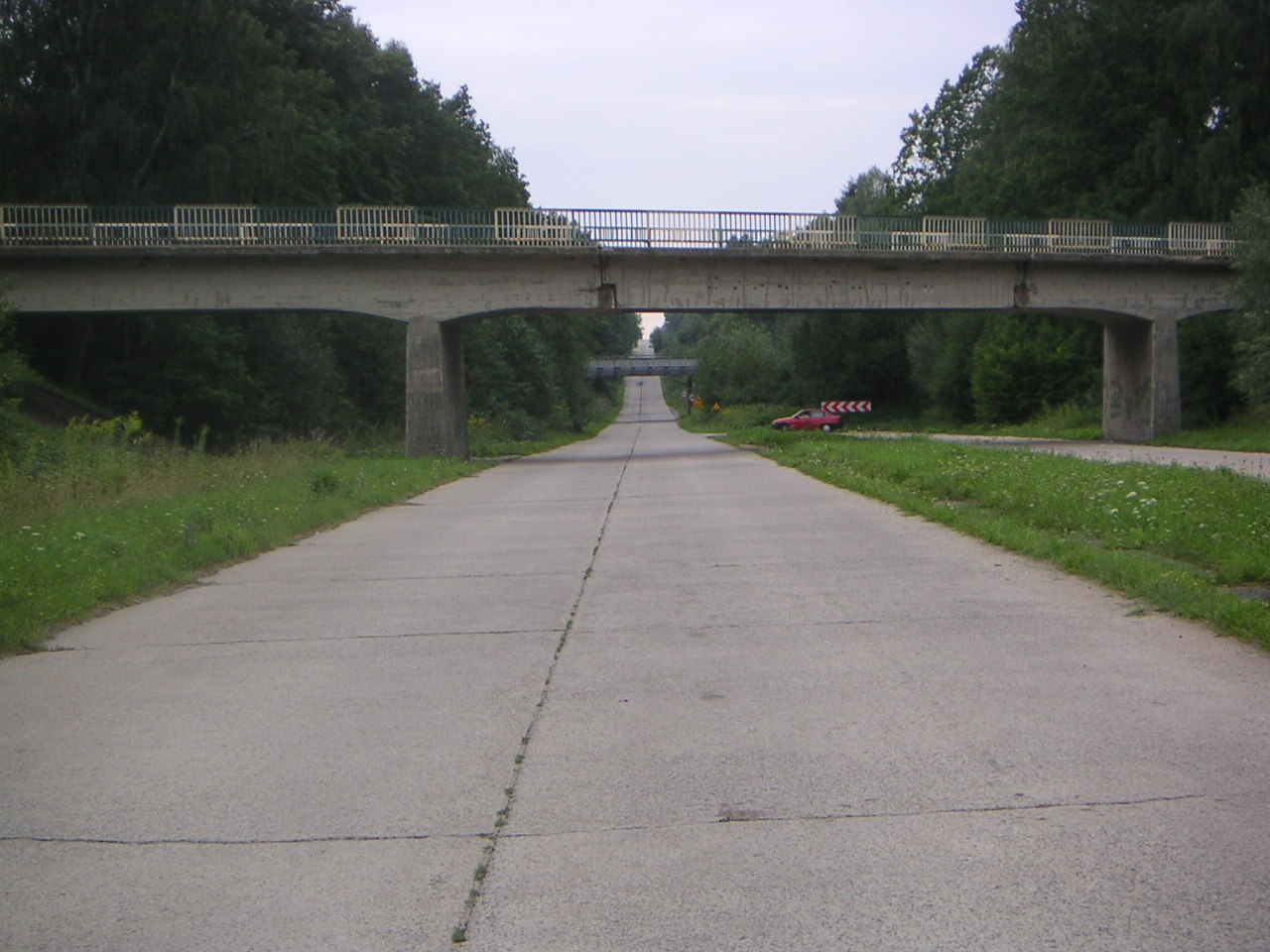 Highway "Berlinka", now - expressway S22 in Poland